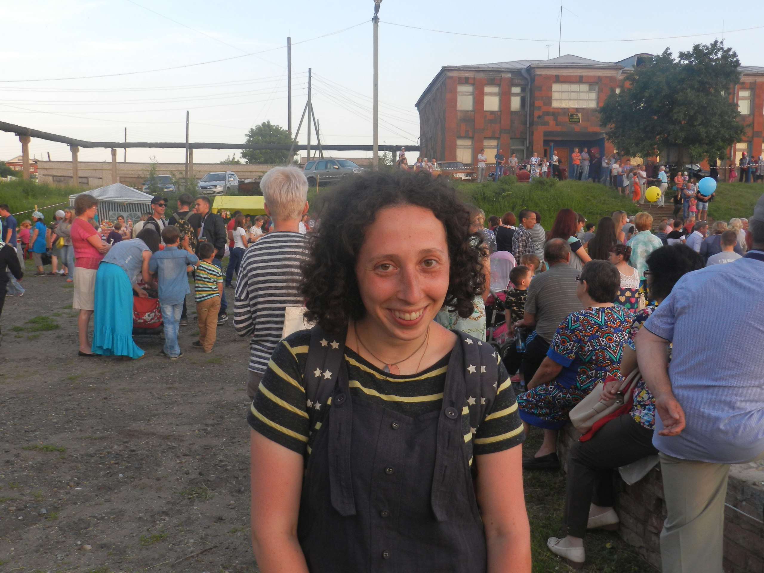 Jewish woman on a celebrating in Kirov oblast (Russia)